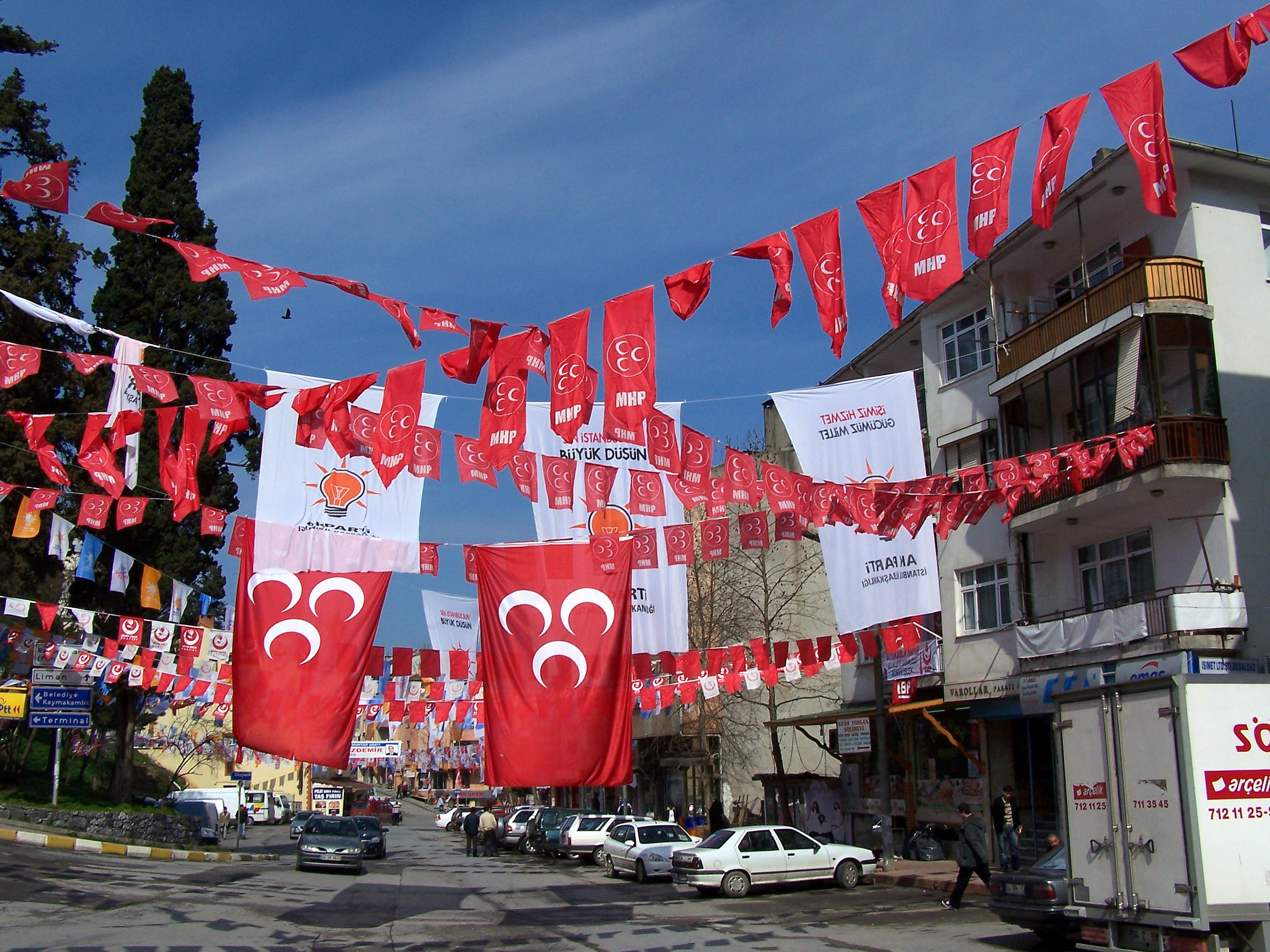 Flags of political parties before the Turkish municipal elections in Şile, Turkey. The most visible ones are MHP (Milliyetçi Hareket Partisi, Nationalist Action Party) and AKP (Adalet ve Kalkınma Partisi, Justice and Development Party) flags.